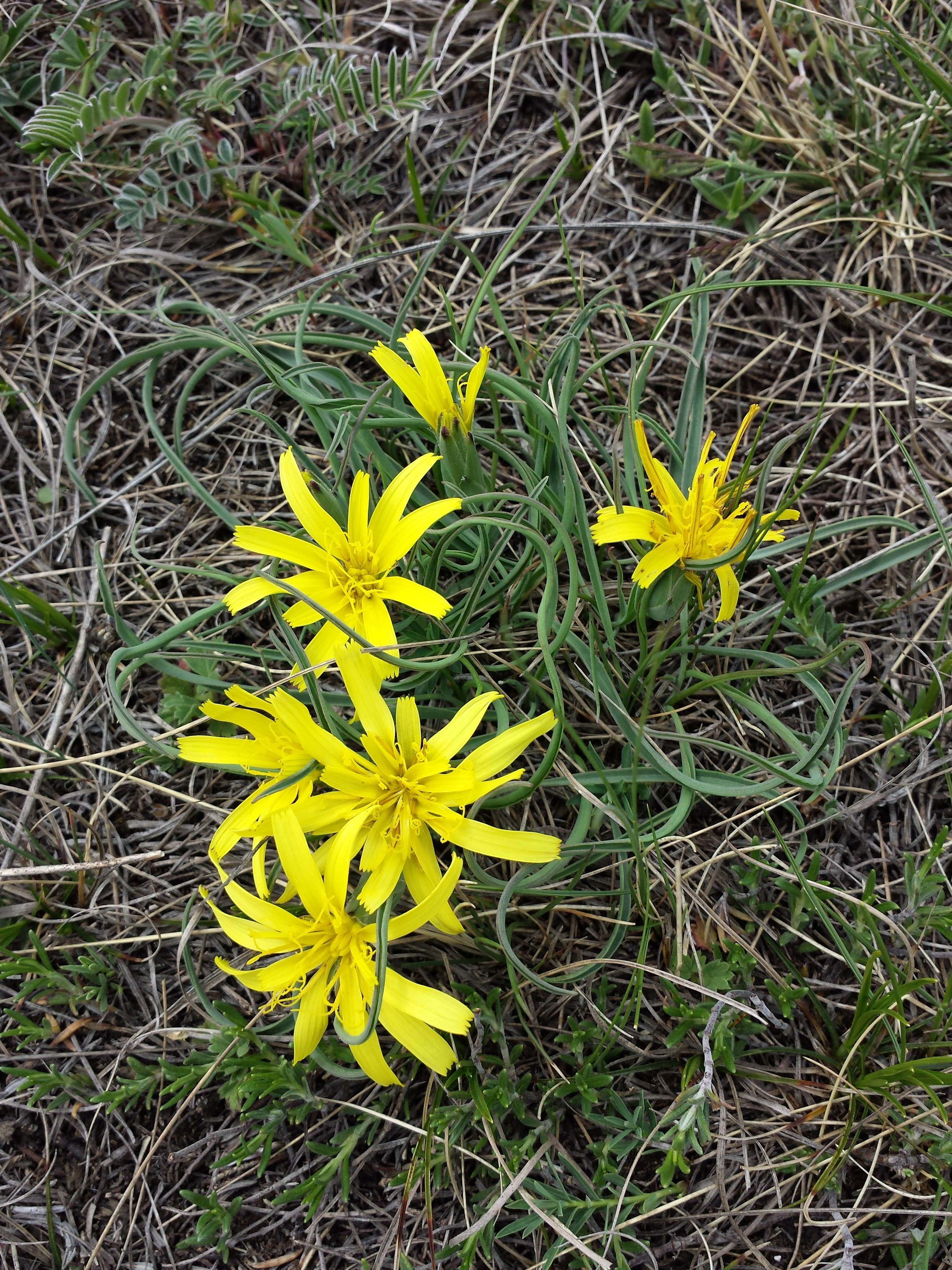 Habitus Taxon: Scorzonera austriaca (sensu Fischer et al. EfÖLS 2008 ISBN 978-3-85474-187-9; det. M. A. Fischer 2014-04-05) Location: Windener Kirchberg, Winden am See, district Neusiedl am See, Burgenland, Austria - ca. 160 m a.s.l. Habitat: dry grassland